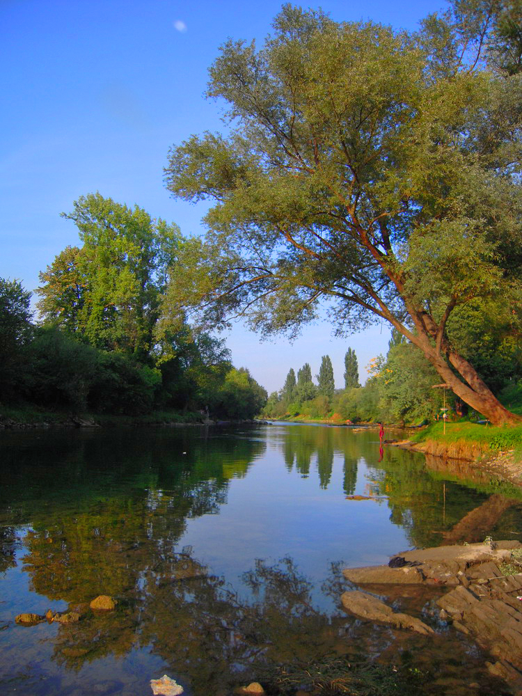 Vrbas in Banja Luka